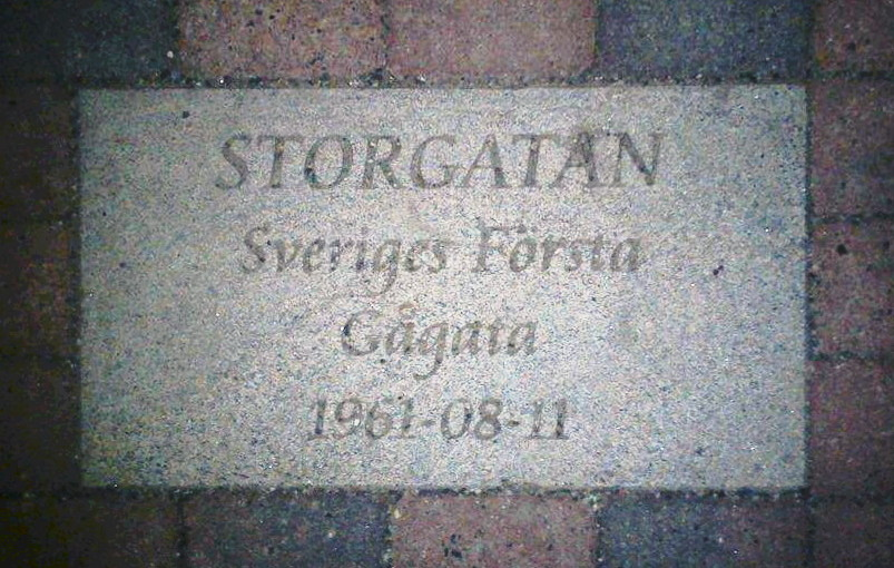 A historical marker on the pedestrian street in Piteå, Sweden's first pedestrian precinct, inaugurated the 1961.